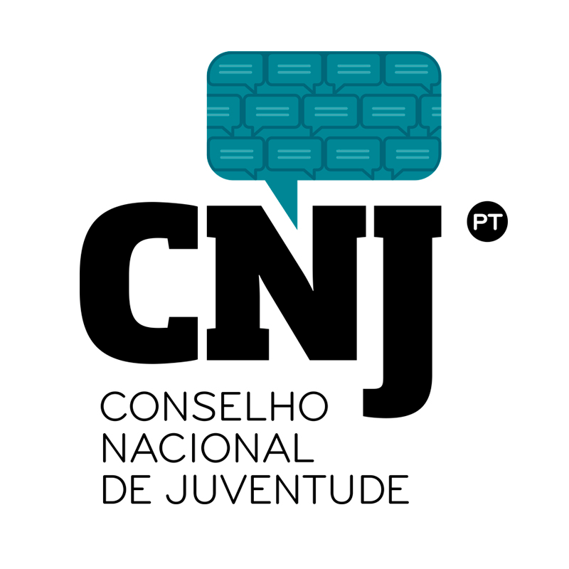 Logo of the Portuguese National Youth Council (Conselho Nacional de Juventude).